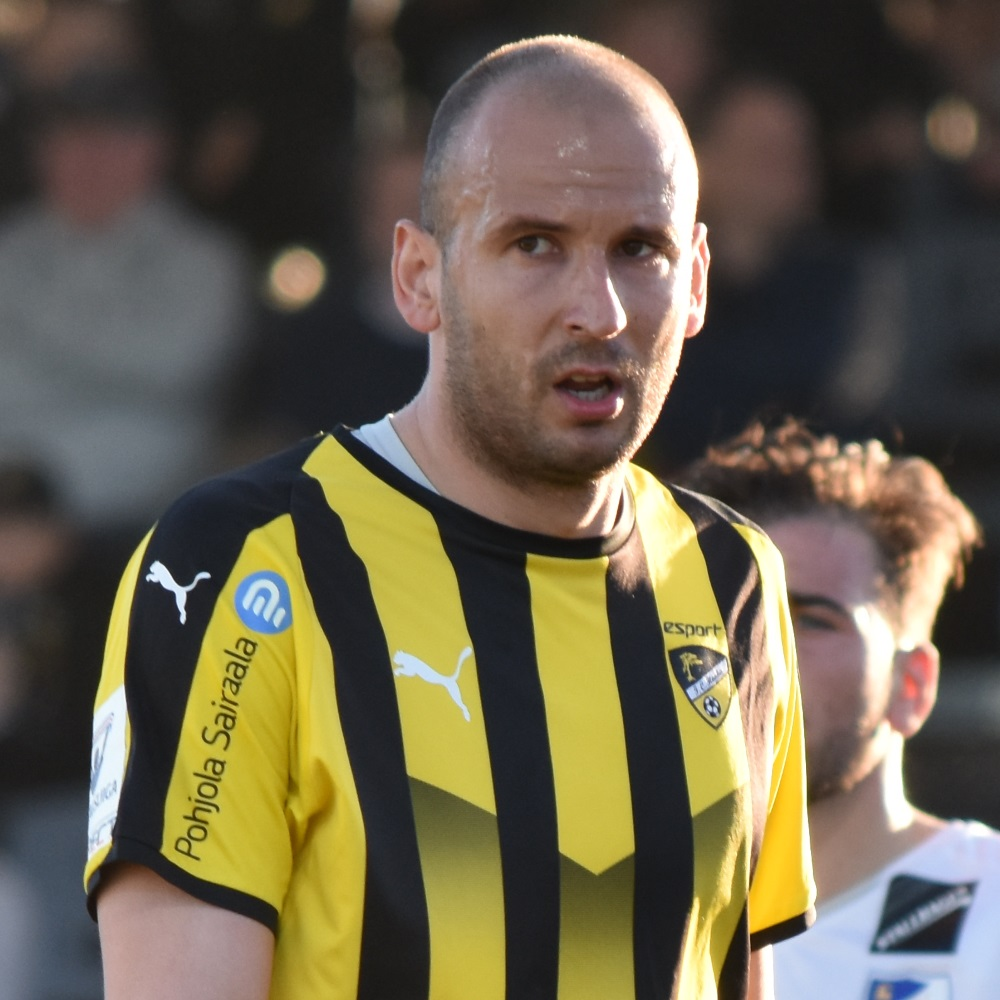 Association football player Nemanja Obradović (FC Honka)